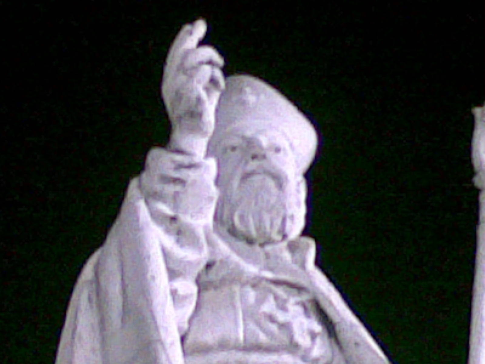 Picture showing the S. Amato statue in Nusco, Avellino, Italy.